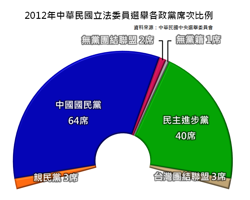 Graph depicting the election results of the Republic of China legislative election of 2012.